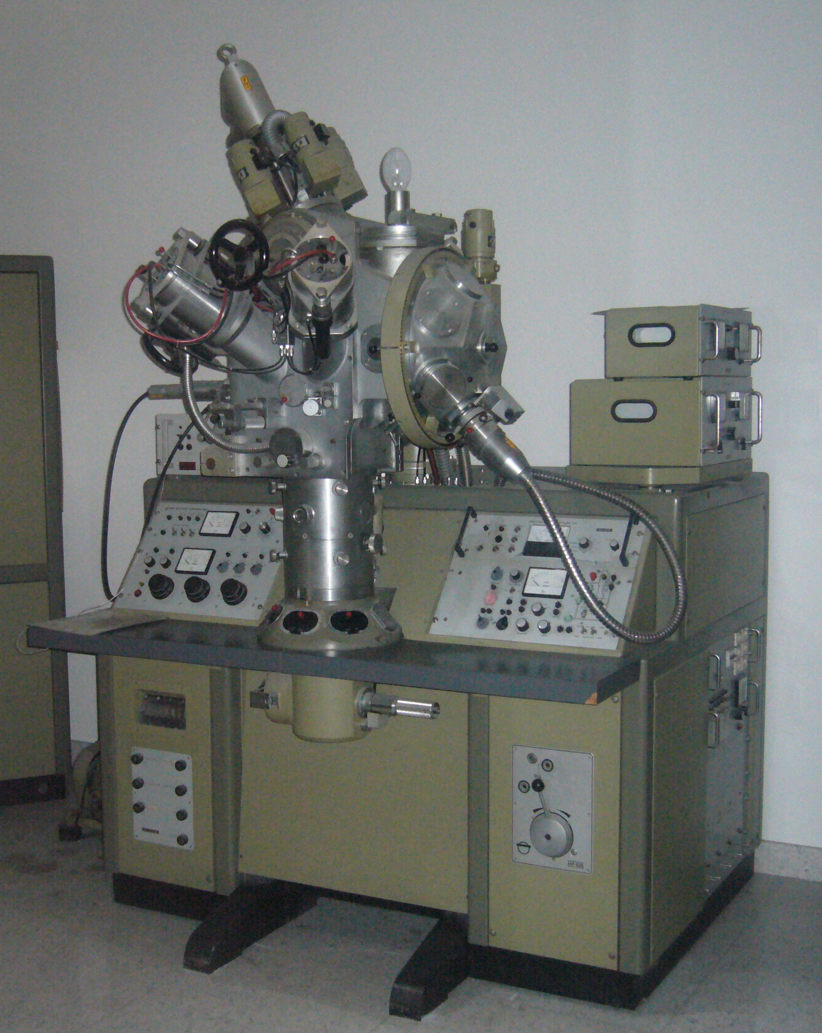 Photoemission electron microscope, model Balzers Metioskop KE 3, built 1971 by Wegmann/Ruska; on display at the University of Zurich, Irchel.